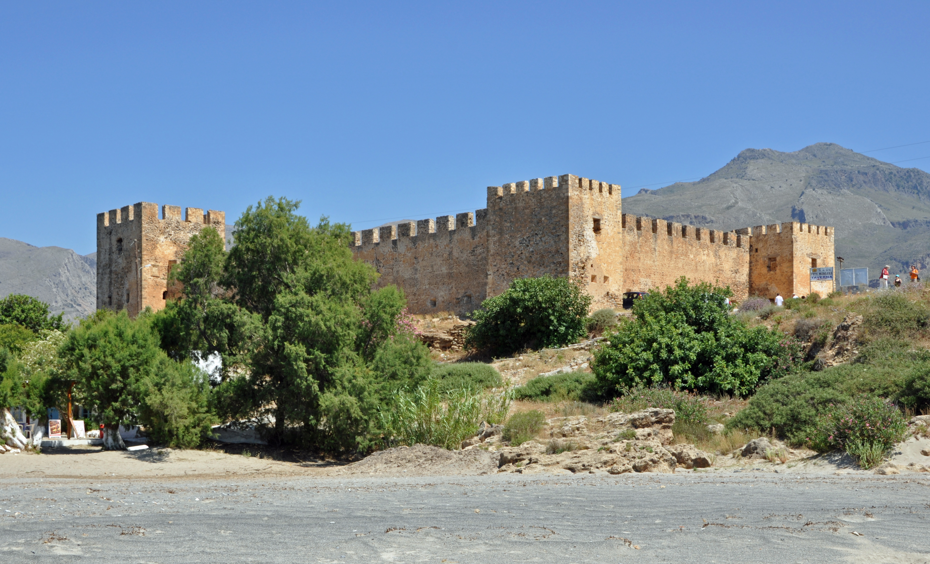 Frangokastello (Crete, Greece): the Venetian castle